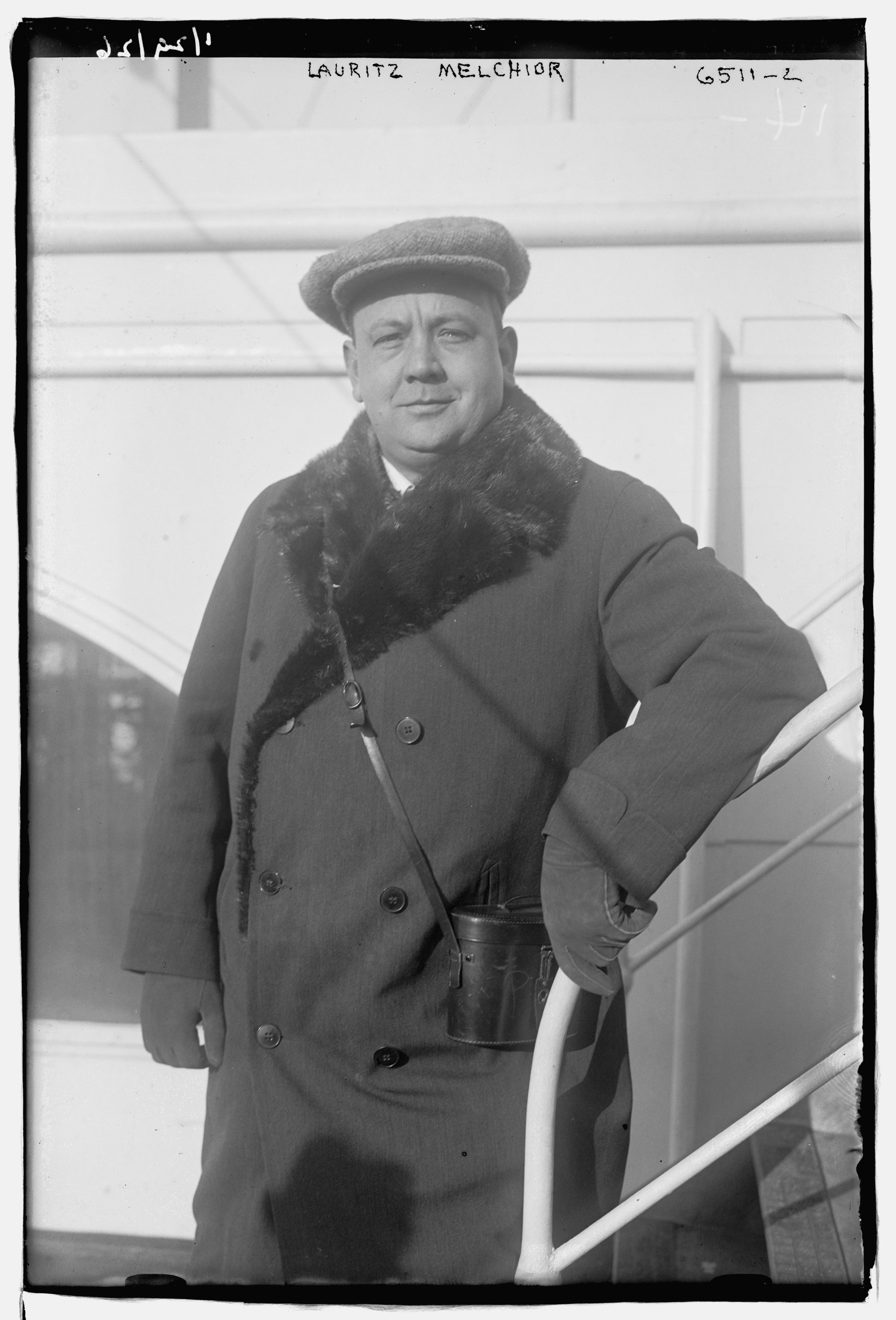 Title: Lauritz Melchior Abstract/medium: 1 negative : glass ; 5 x 7 in. or smaller.